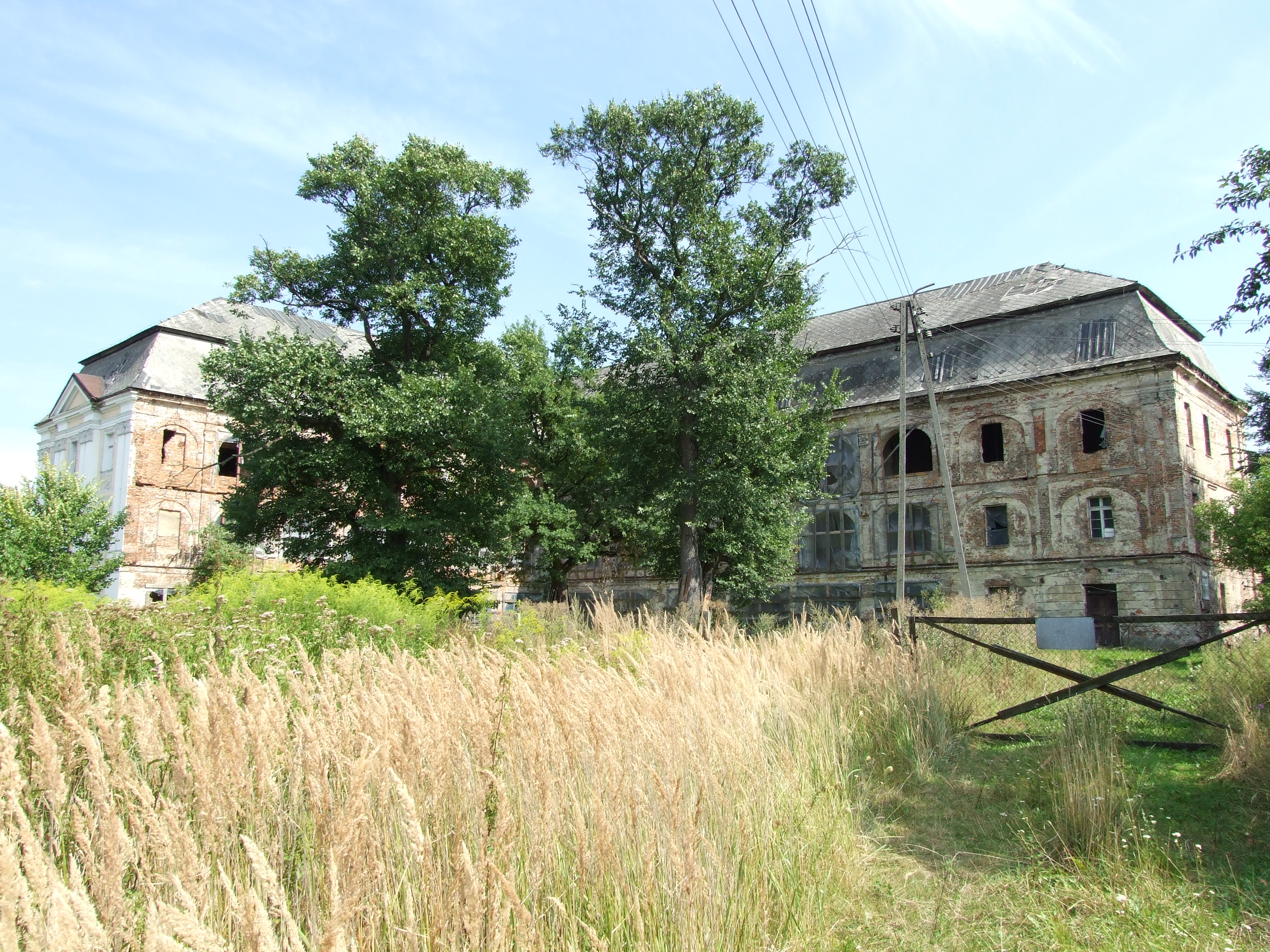 Palace in Bycina